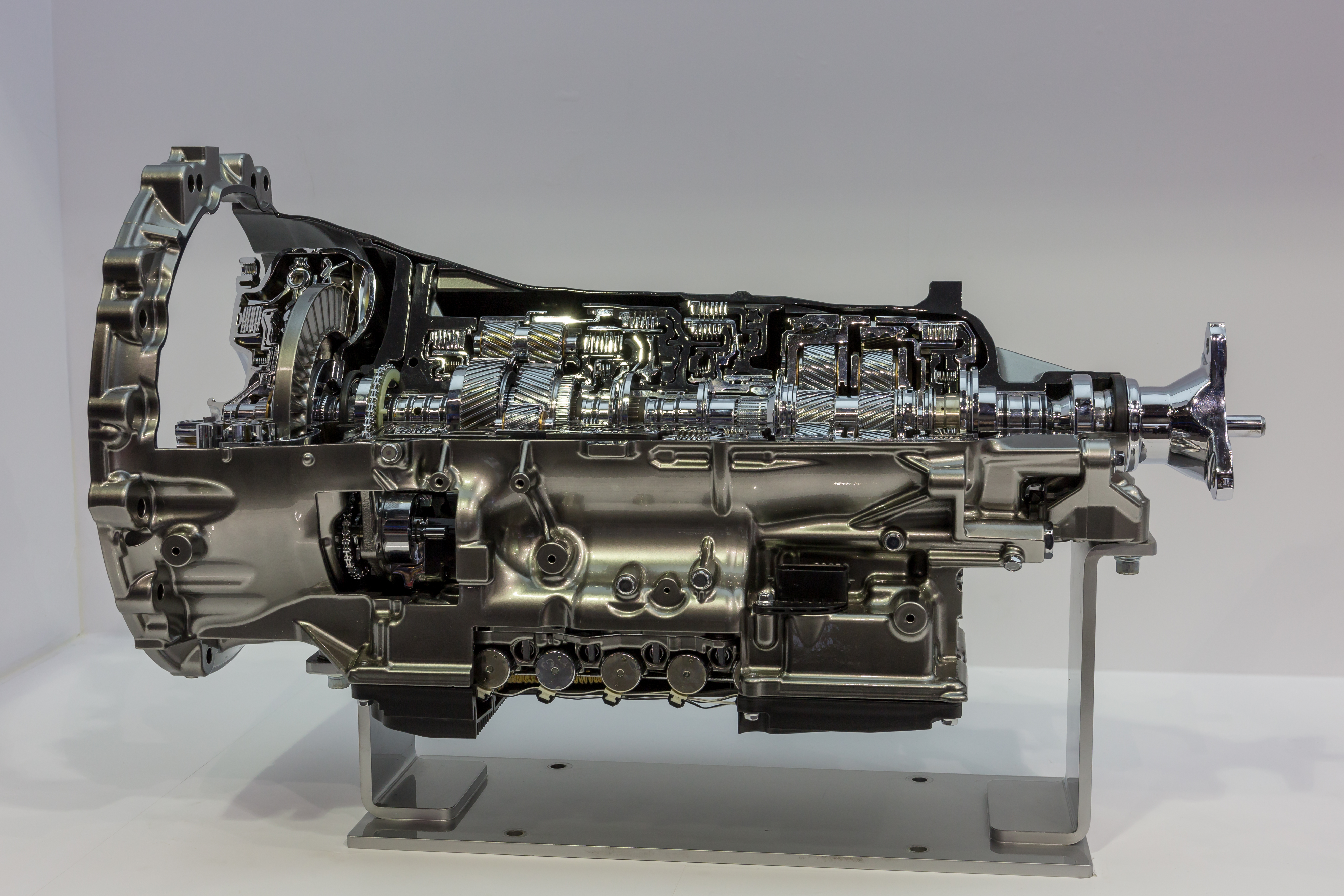 Aisin 10 speed RWD automatic Transmission AWR10L65, Mondiale Paris Motor Show 2018